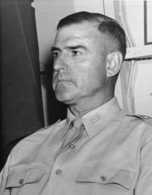 Portrait of General Roscoe Barnett Woodruff at Fort Jackson, South Carolina, 1942.